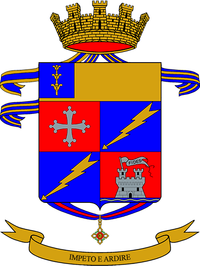 Coat of Arms of the 186° Paratrooper (Paracadutisti) Regiment; Italian Army.